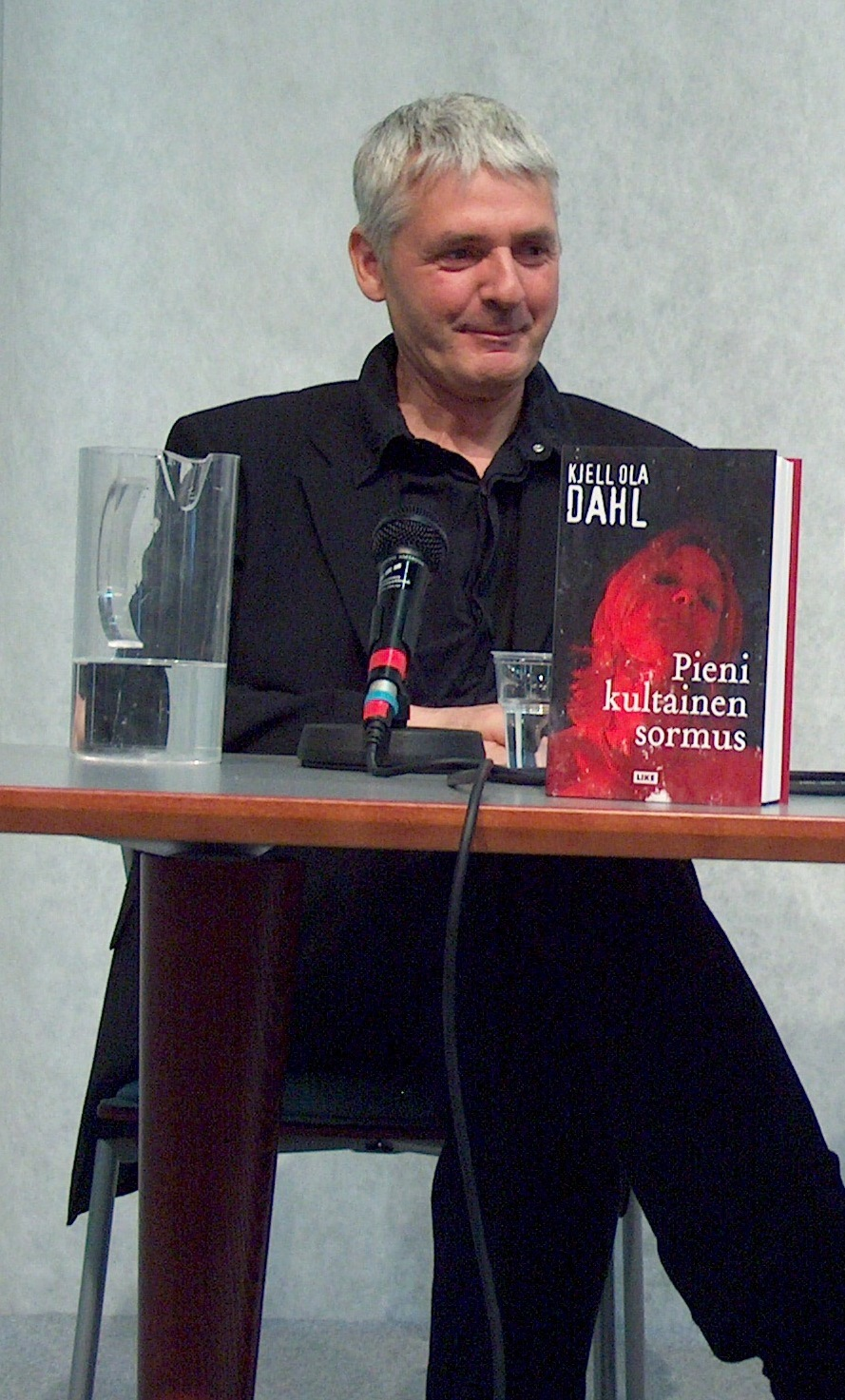 Kjell Ola Dahl, Norwegian writer at The Helsinki Book Fair 2005.